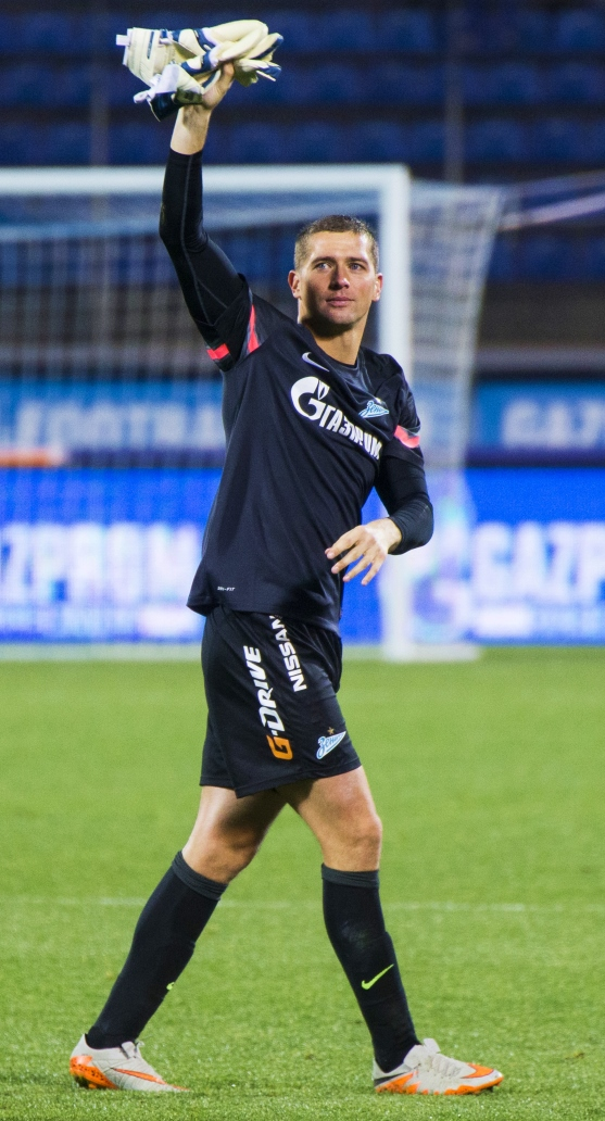 Mikhail Kerzhakov